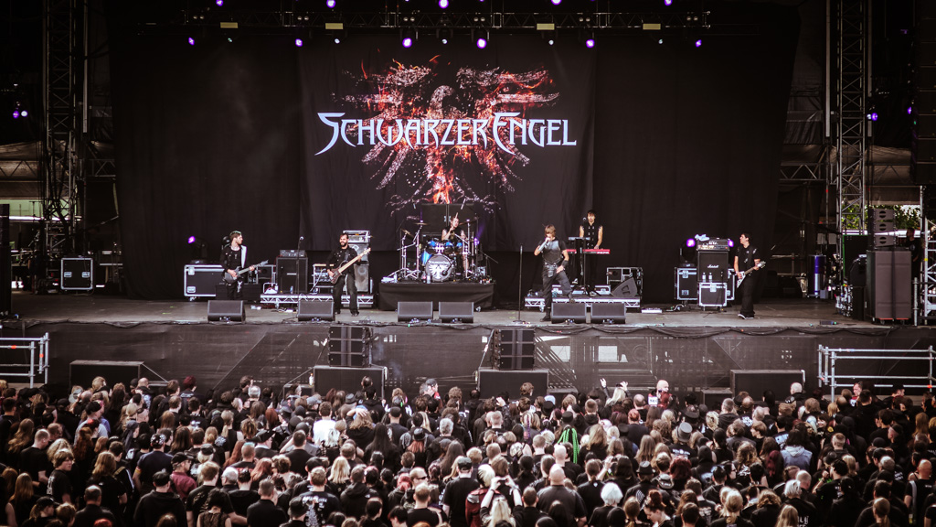 Schwarzer Engel auf dem Mera Luna Festival 2013